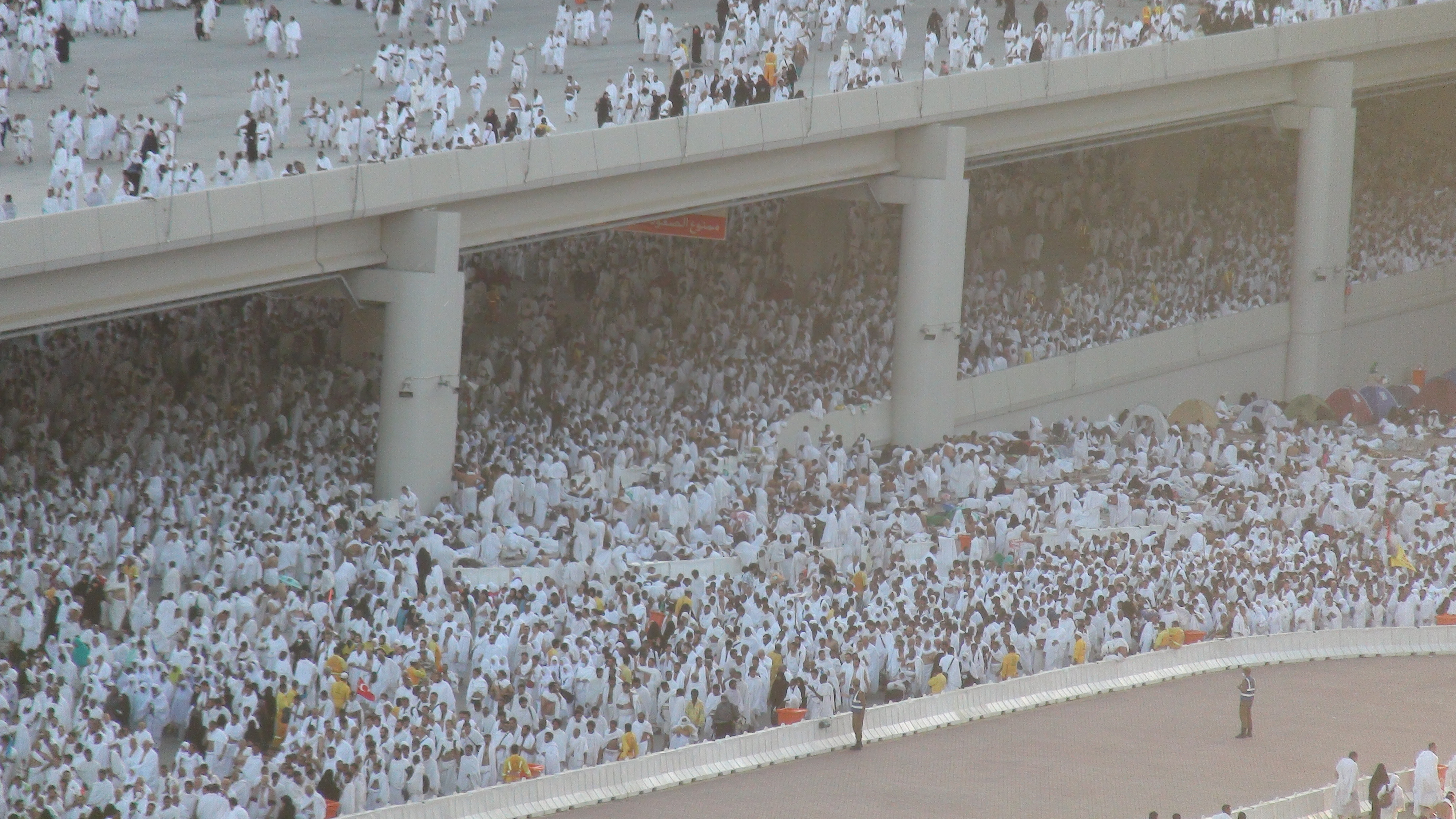 Jamarat Bridge in Mina